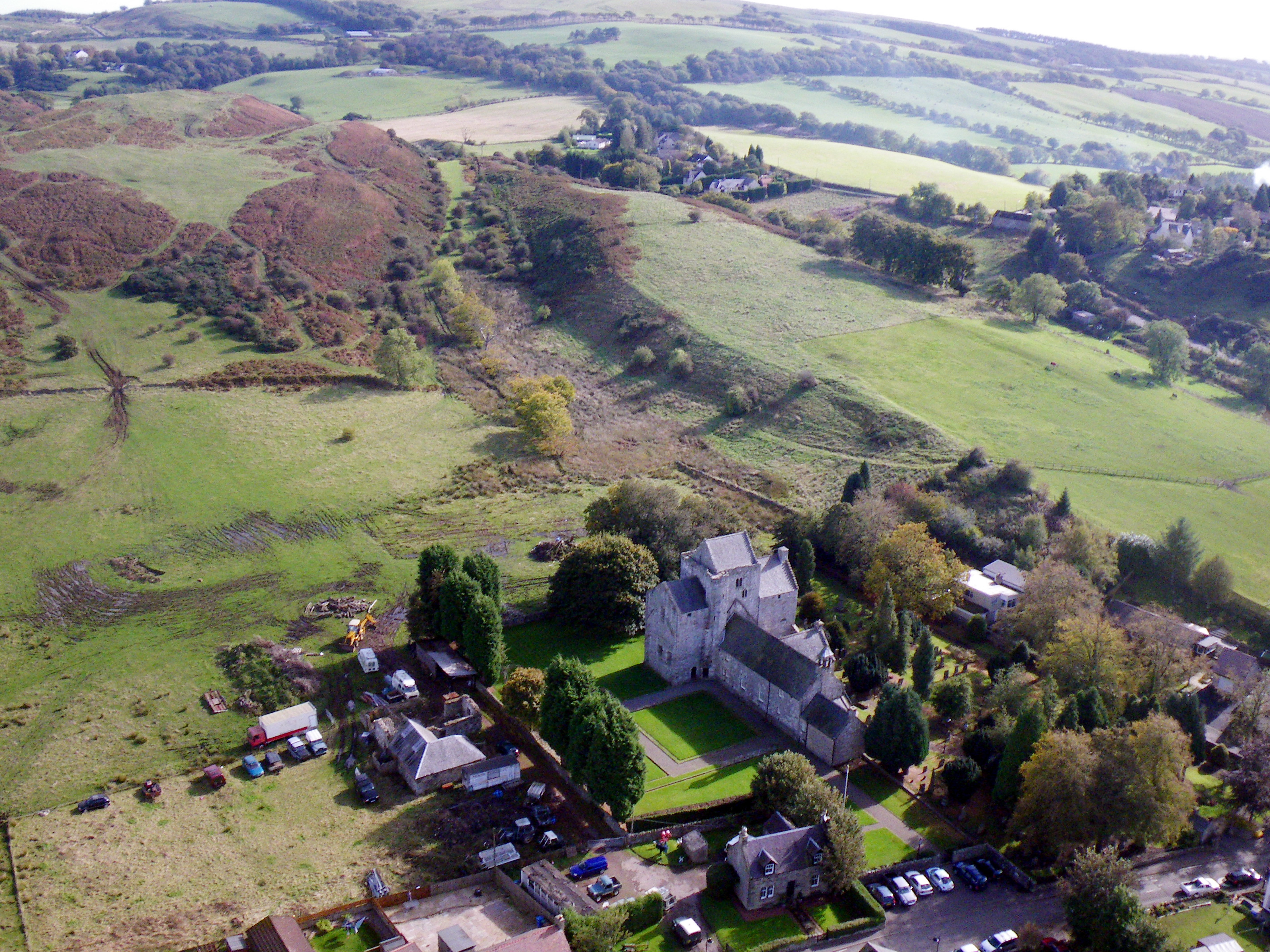 The original HQ of the Knights Hospitaller of the Order of St John of Jerusalem in Scotland. Kite aerial photograph First published: CC-BY West Lothian Archaeology